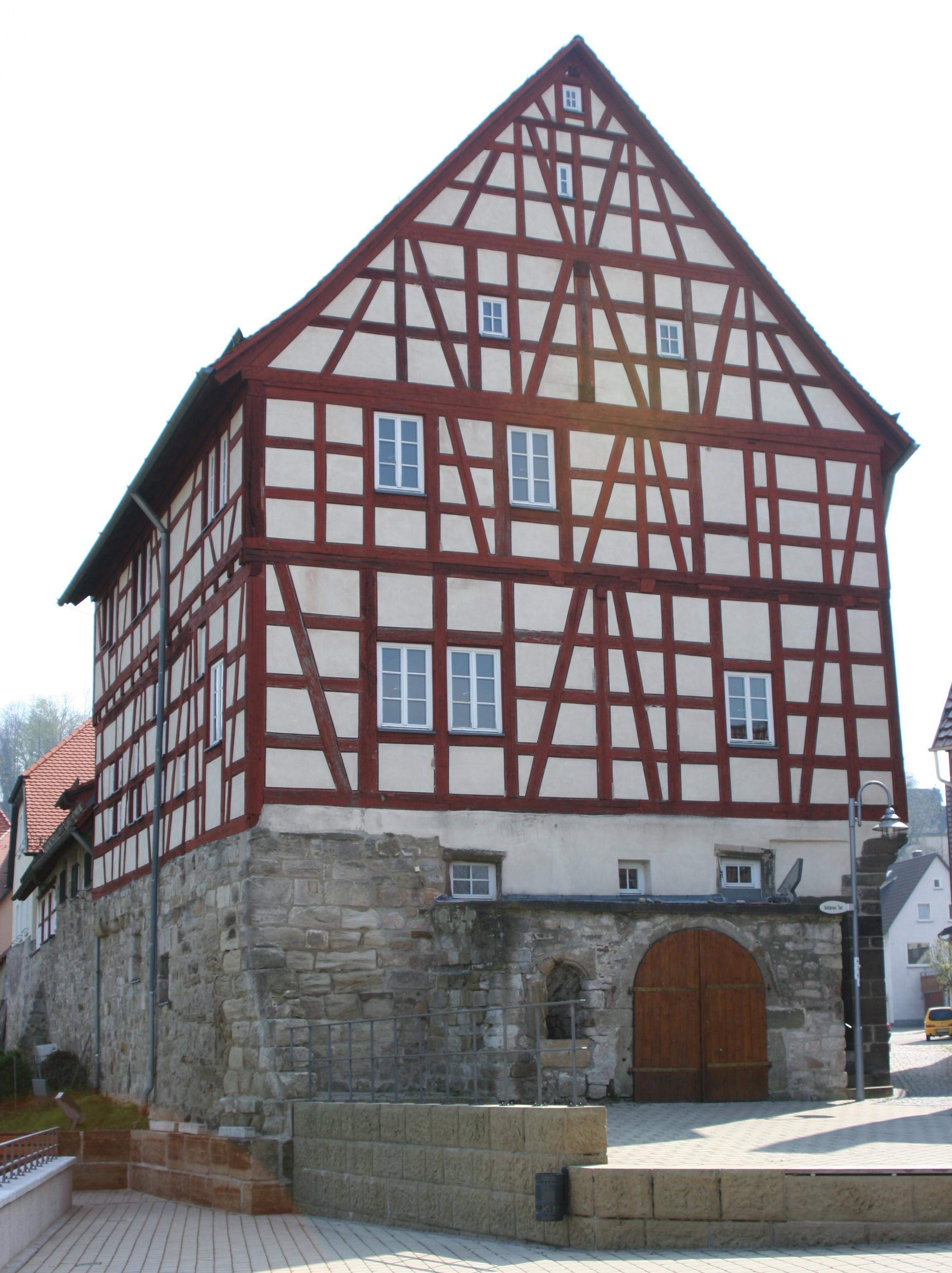 The Freihaus in Löwenstein